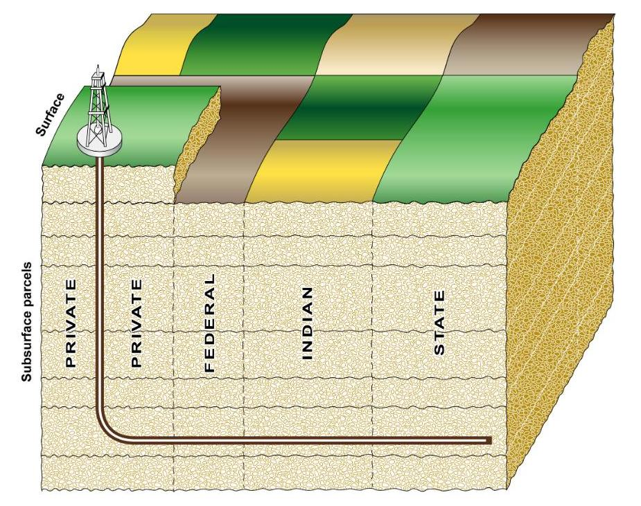 This image is excerpted from a U.S. GAO report: OIL AND GAS: Updated Guidance, Increased Coordination, and Comprehensive Data Could Improve BLM’s Management and Oversight